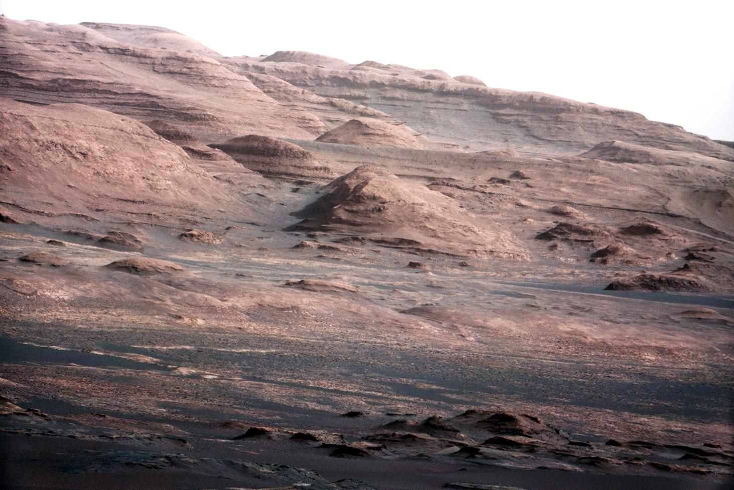 A chapter of the layered geological history of Mars is laid bare in this postcard from NASA's Curiosity rover. The image shows the base of Mount Sharp, the rover's eventual science destination. This image is a portion of a larger image taken by Curiosity's 100-millimeter Mast Camera on Aug. 23, 2012. See PIA16104. Scientists enhanced the color in one version to show the Martian scene under the lighting conditions we have on Earth, which helps in analyzing the terrain. For scale, an annotated version of the figure highlights a dark rock that is approximately the same size as Curiosity. The pointy mound in the center of the image, looming above the rover-sized rock, is about 1,000 feet (300 meters) across and 300 feet (100 meters) high. JPL manages the Mars Science Laboratory/Curiosity for NASA's Science Mission Directorate in Washington. The rover was designed, developed and assembled at JPL, a division of the California Institute of Technology in Pasadena. For more about NASA's Curiosity mission, visit: and